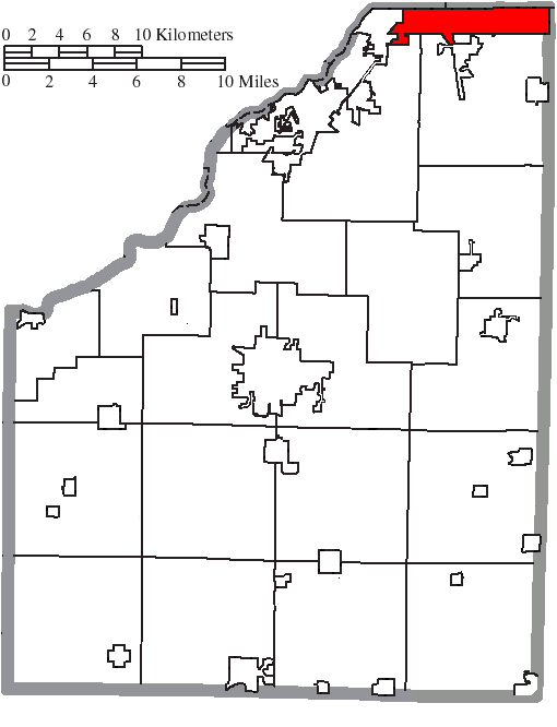 Map of the municipal and township boundaries of Wood County, Ohio, United States, as of the 2000 census, with the location of the city of Northwood highlighted. Township borders are shown only in unincorporated areas in order to differentiate incorporated and unincorporated areas more clearly.